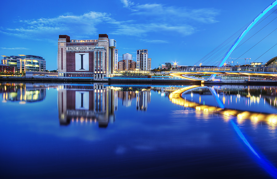 Another Blue hour shot of Baltic Flour Mills